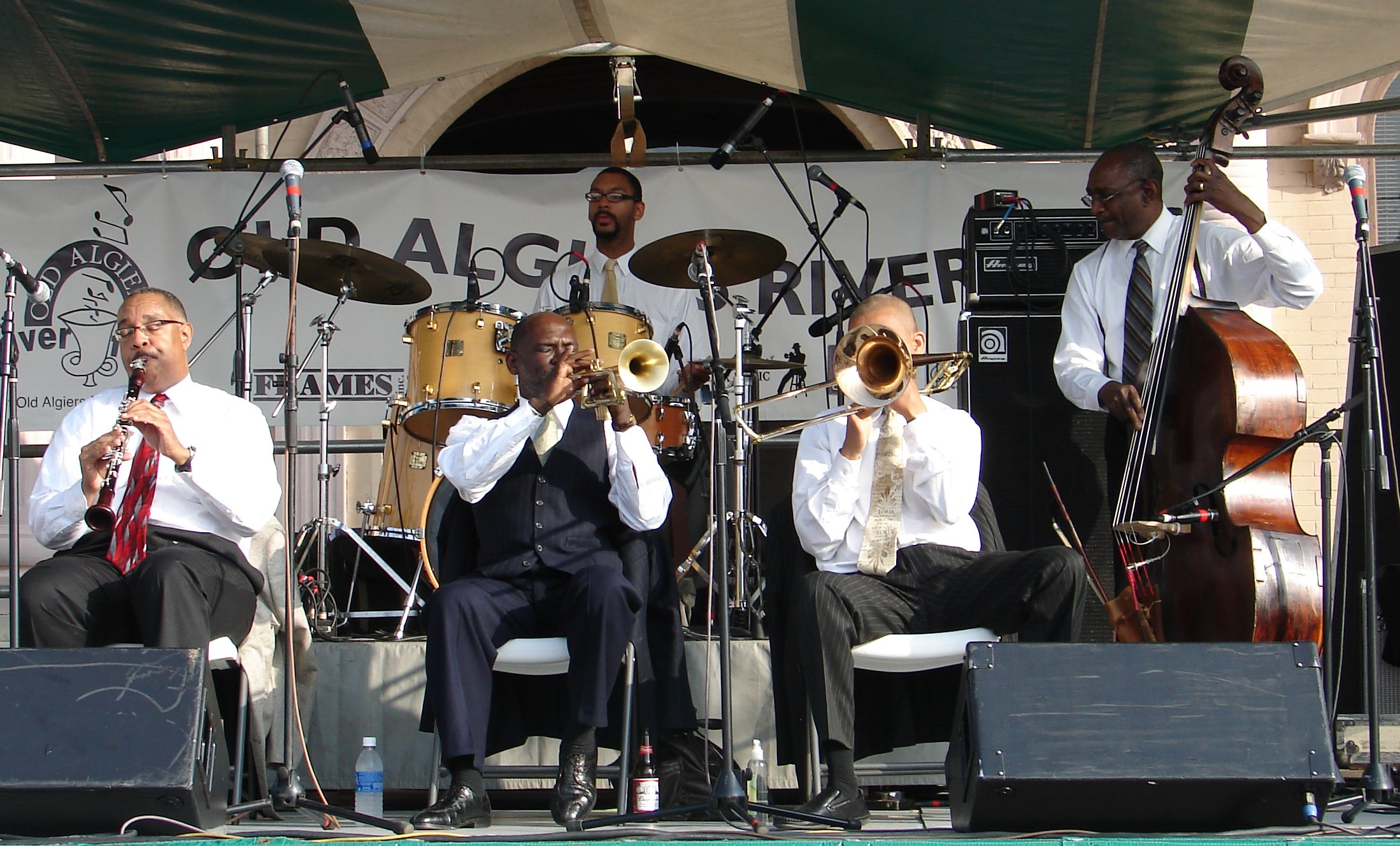 Dr. Michael White band playing at Algiers Riverfest, New Orleans: Dr. Michael White, clarinet; Gregg Stafford, trumpet; Jason Marsalis, drums